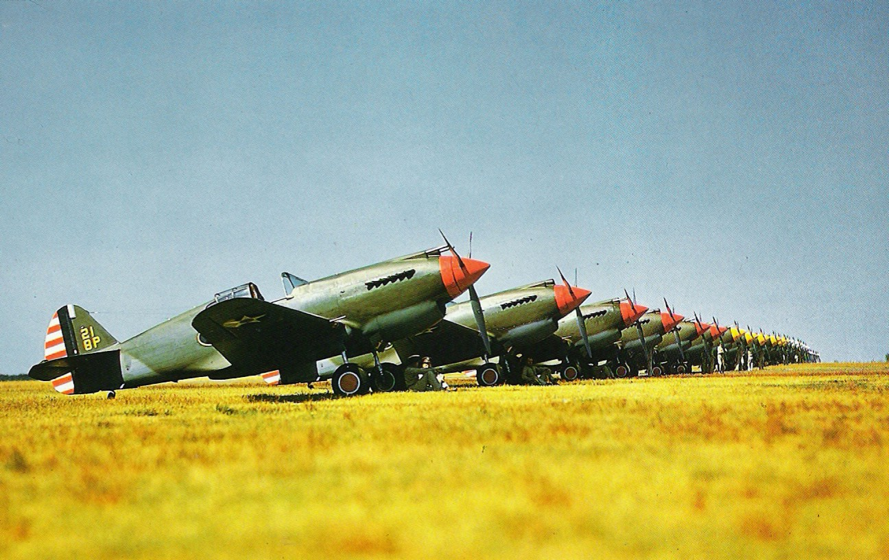 U.S. Army Air Corps Curtiss P-40 fighters of the 33rd Pursuit Squadron, 8th Pursuit Group at Langley Field, Virginia (USA), in 1941.